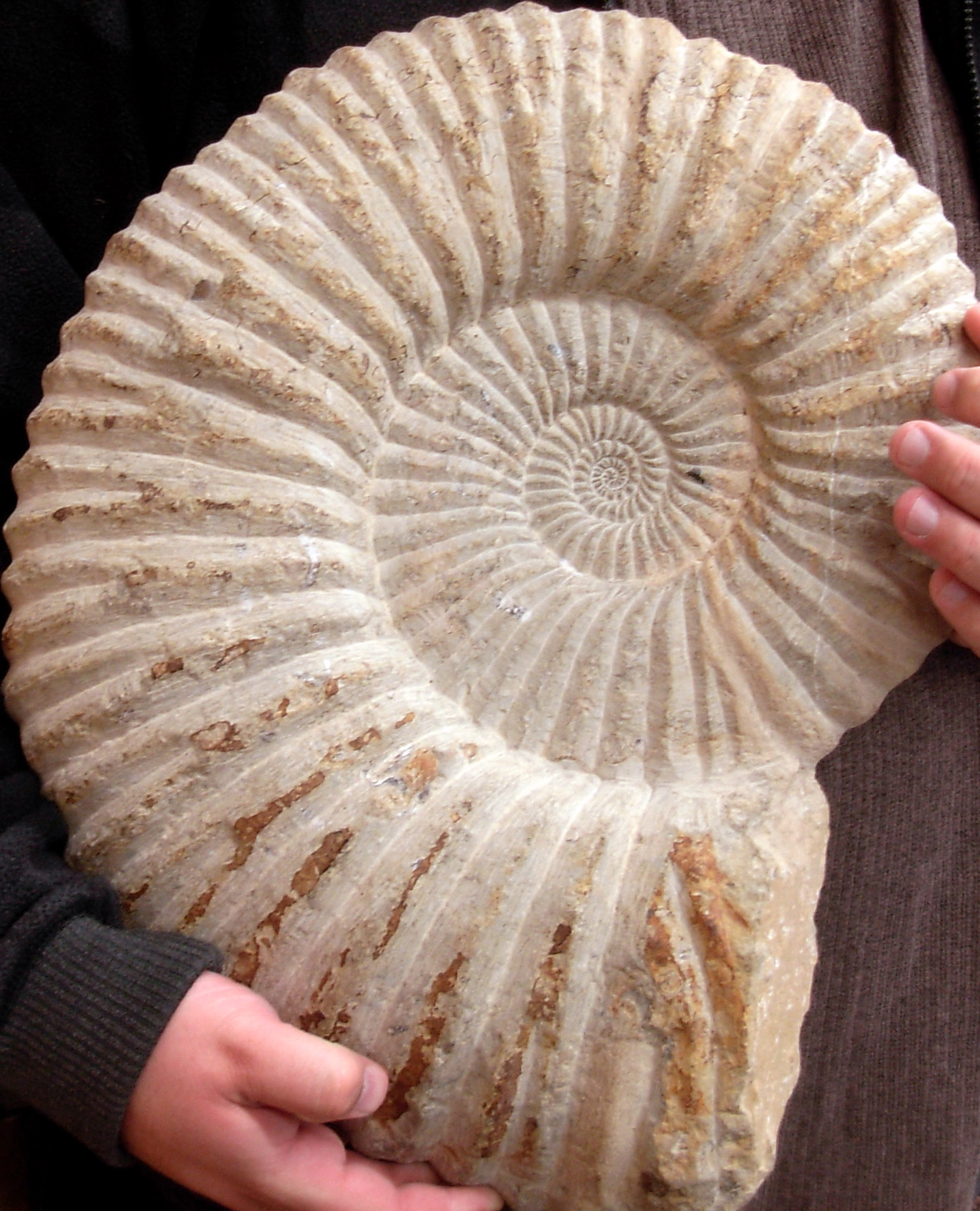 Ammonite fossil with human hands for size comparison